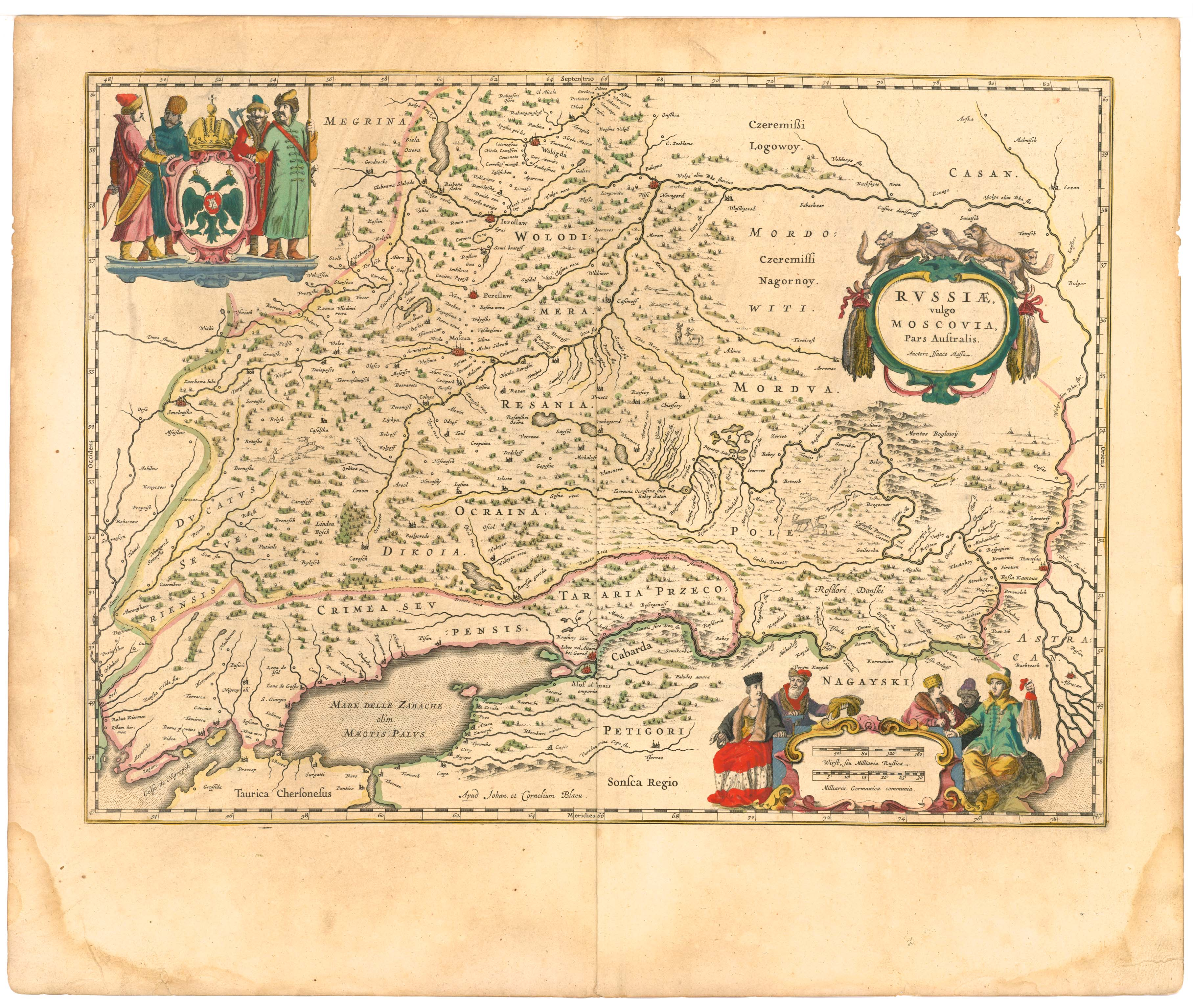 Title: The southern part of Russia, a.k.a. Muscovyfrom"Theatrum Orbis Terrarum, sive Atlas Novus in quo Tabulæ et Descriptiones Omnium Regionum, Editæ a Guiljel et Ioanne Blaeu"(Theater of the World, or a New Atlas of Maps and Representations of All Regions, Edited by Willem and Joan Blaeu), 1645. Among numerous topographical mistakes there is a canal (Fossa Kamouz, non-existent at the time) between Don (Tanais flux) and Volga (Wolga olim Rha flux) near right side of the map at latitude what the author thought to be 51° N.